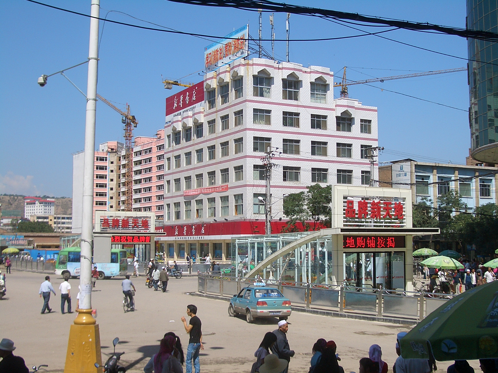 Nanmen Guangchang (South Gates Square), located near the [demolished] former south gates of the [demolished] city wall. Looking NW, toward Xinhua bookstore (which occupies just one big room on the building's first floor).